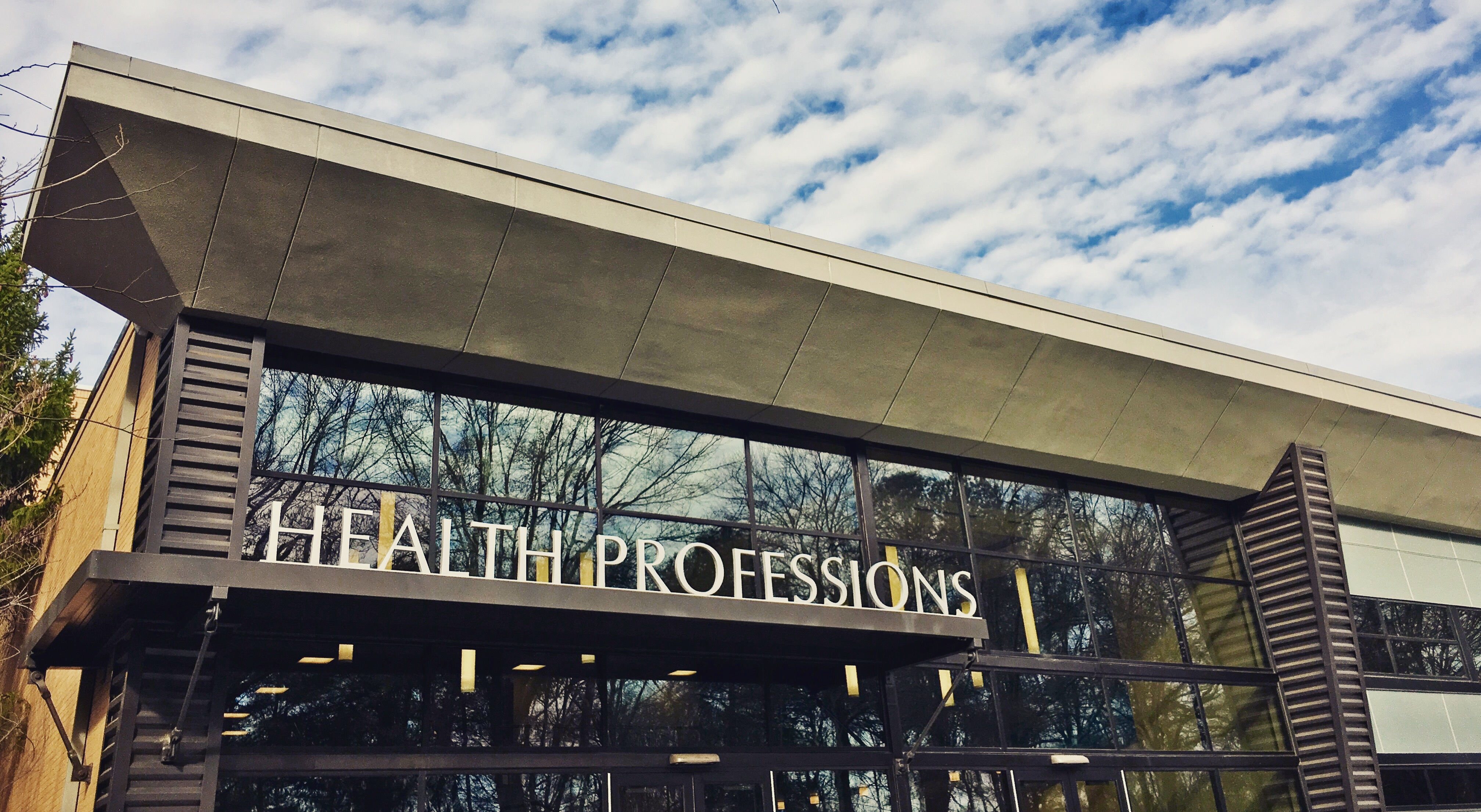 Façade of the Dalton State College Health Professions building from the college's Dalton, Georgia, United States campus.